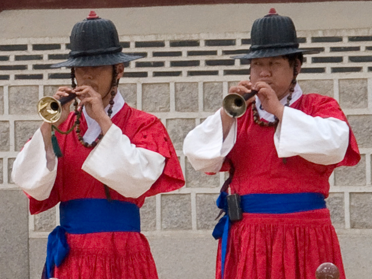 Taeyeongso, a Korean traditional musical instruments. Cropped for the relevant item from the original.